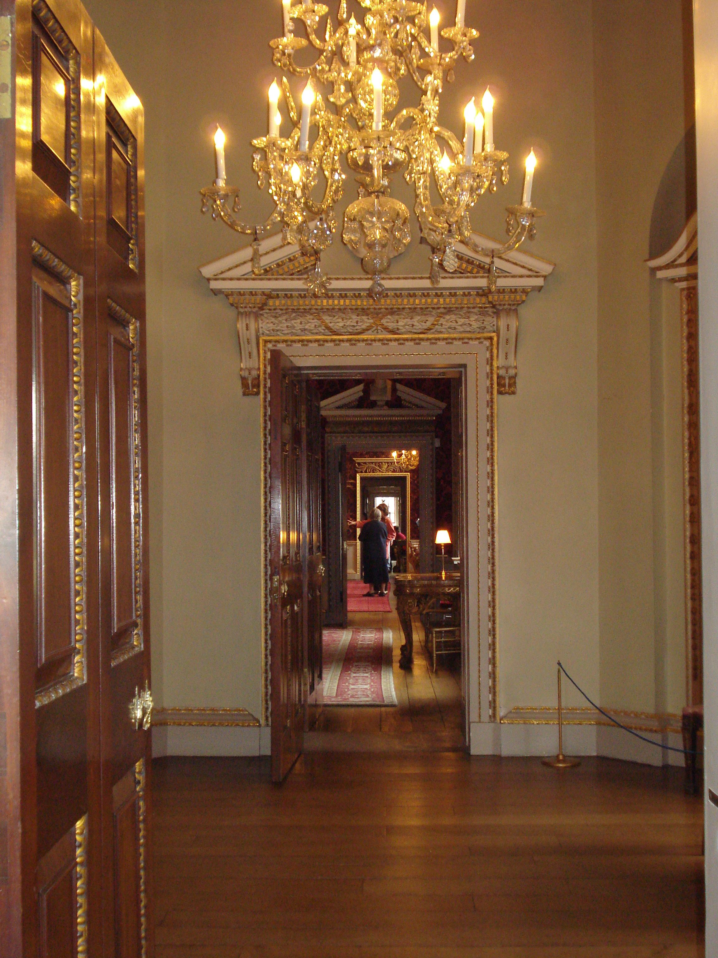 Stately Homes